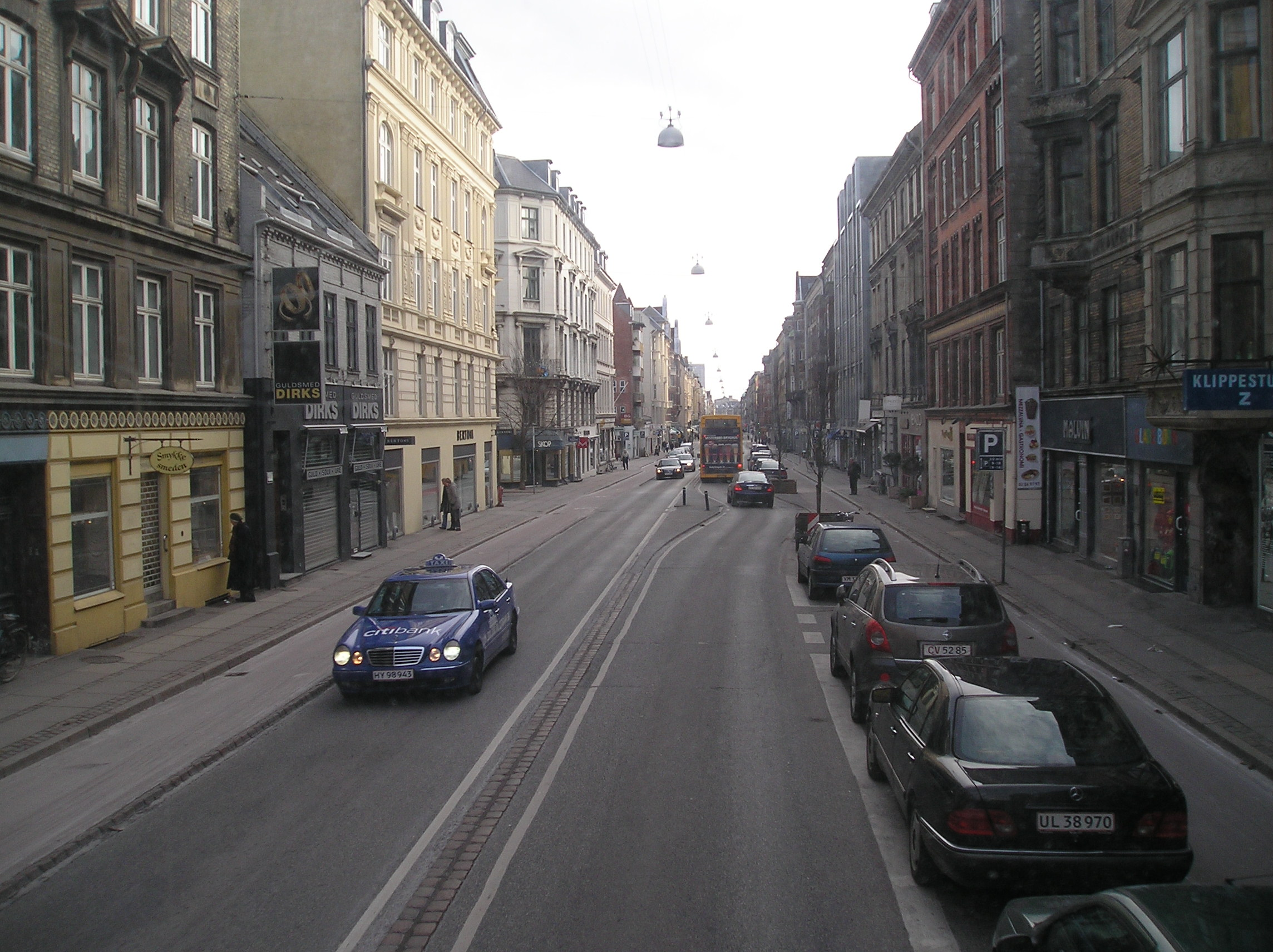 The Frederiksberg street Gammel Kongevej shown in the direction Copenhagen city after crossing Allegade. The first street af the left is Rathsachsvej.